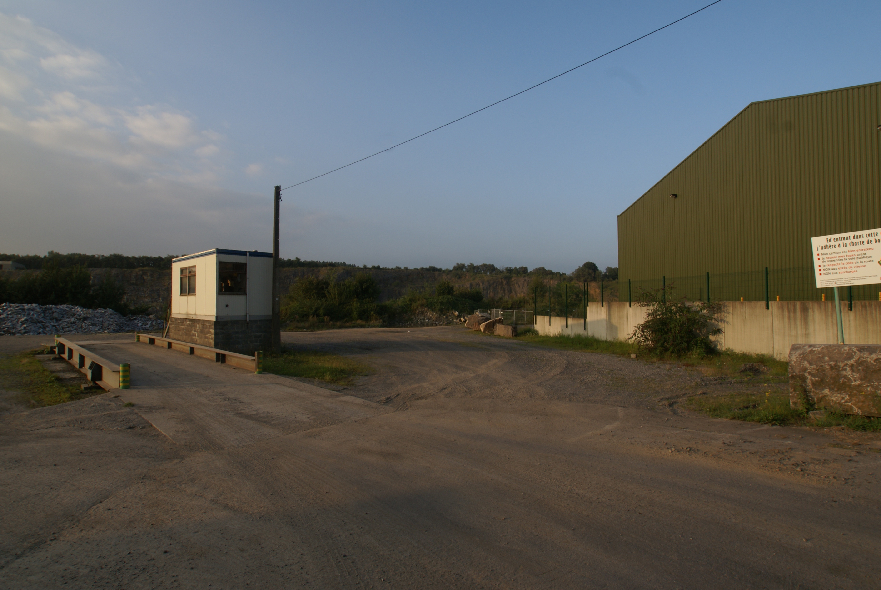 Sprimont (Belgium): Entry of the quarry